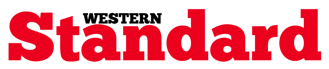 Official logo of the Western Standard.